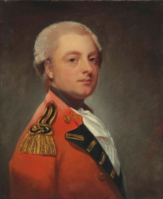 Portrait of Sir Michael le Fleming, 4th Baronet (1748–1806), British politician.